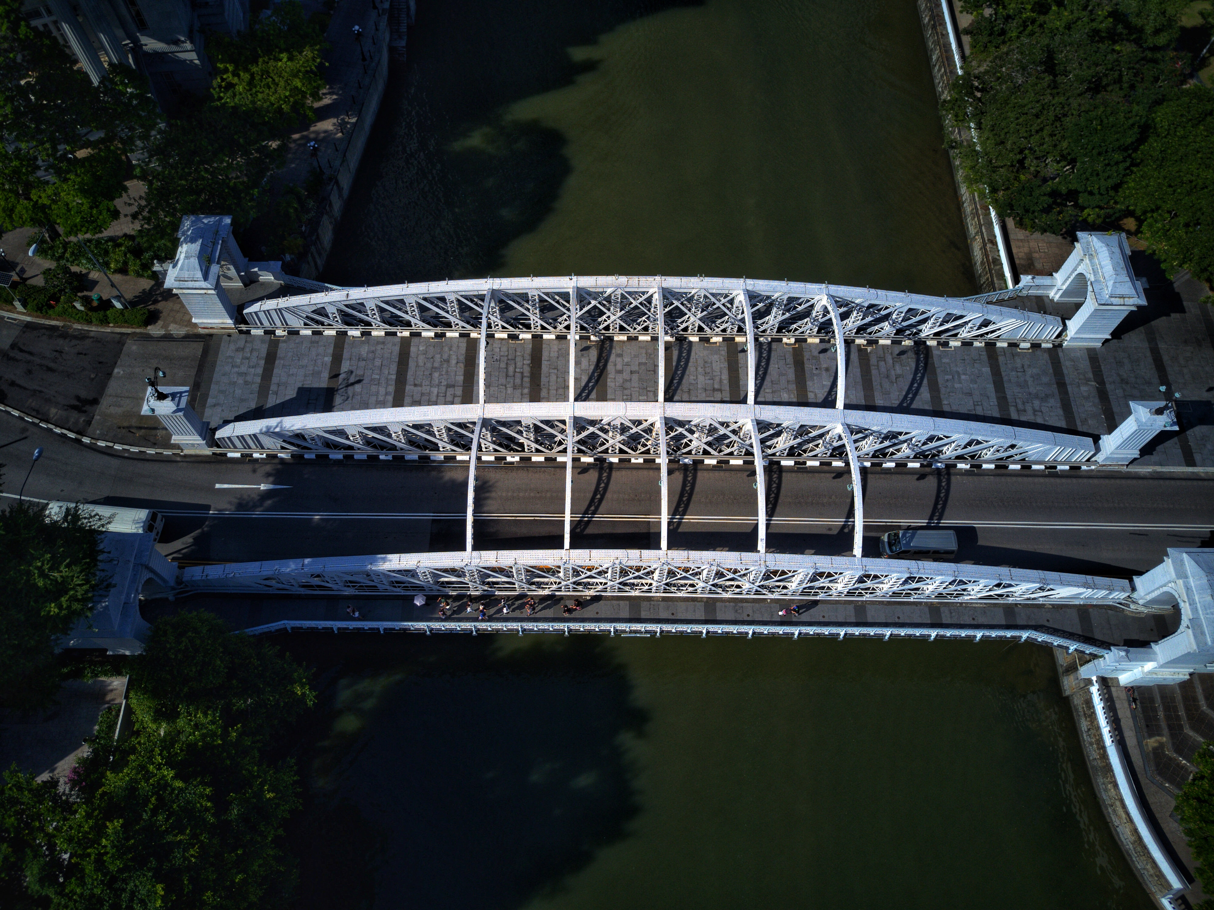 Aerial perspective of Anderson Bridge over the Singapore River